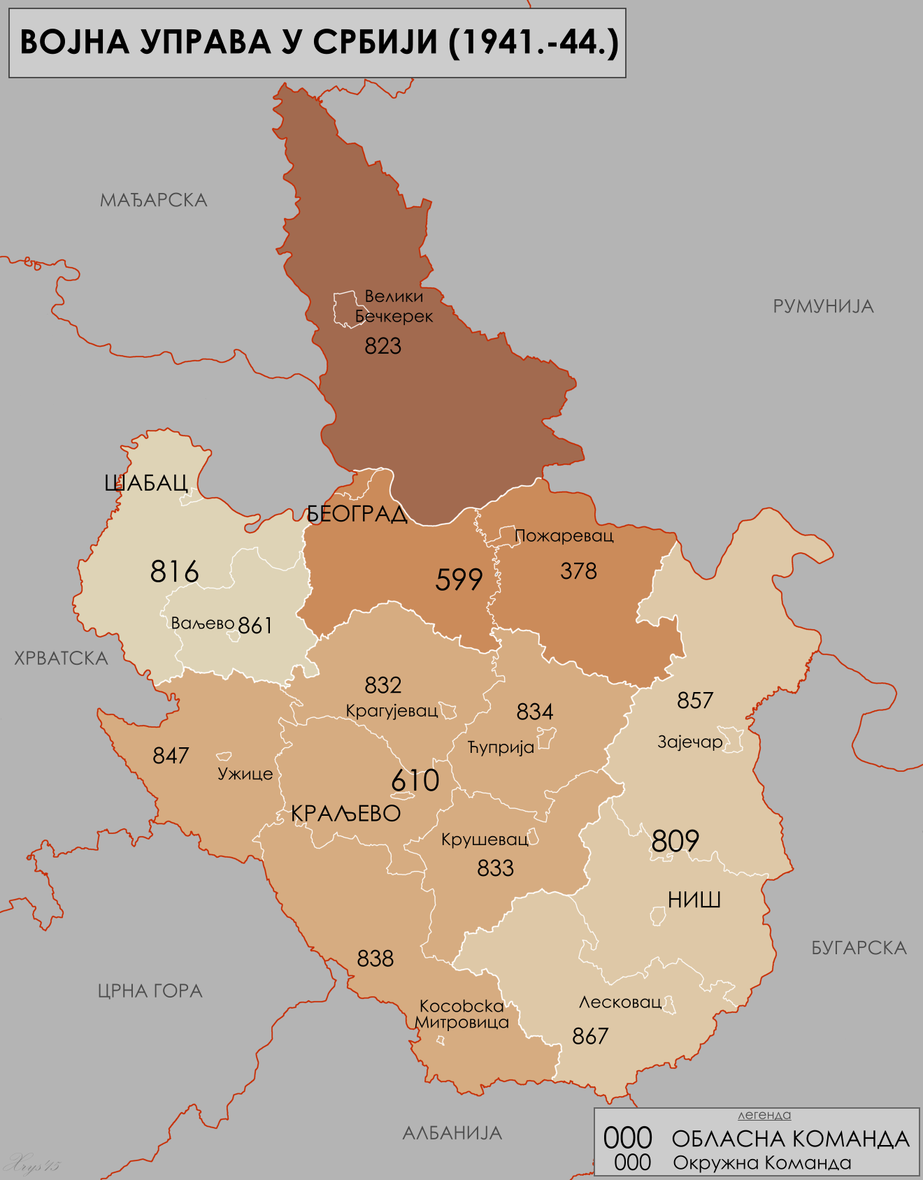 Map of the German military administration in Serbia 1941-45 showing Area and District commands. Source map data; Wilfried Krallert, 200k Volkstumskarte Jugoslawien, Wien (1941). Cyrillic version.